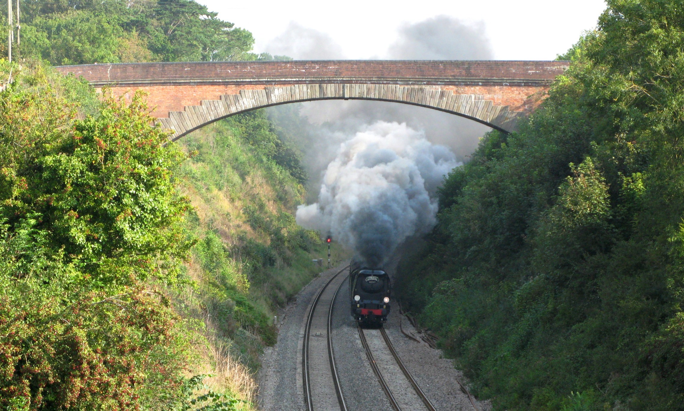 Ex Southern Railway Battle of Britain (BB) Class 4-6-3 34067 "Tangmere" passing beneath Isambard Kingdom Brunel's "Devil's Bridge" at Uphill, North Somerset, England. The train is the summer steam hauled "Torbay Express" from Bristol Temple Meads to Kingswear.